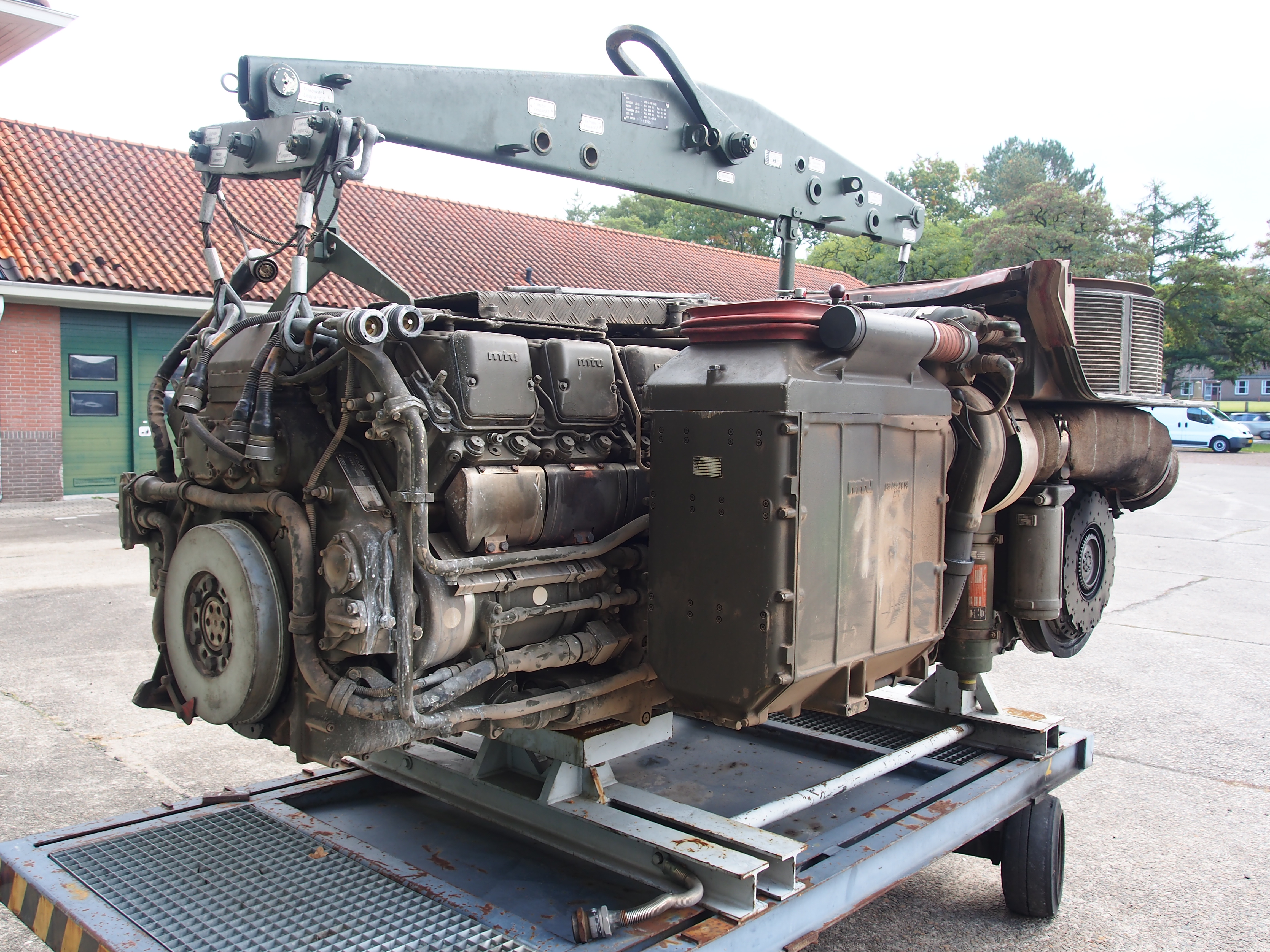 Dutch Cavalry Museum, Bernhardkazerne, Amersfoort, The Netherlands.